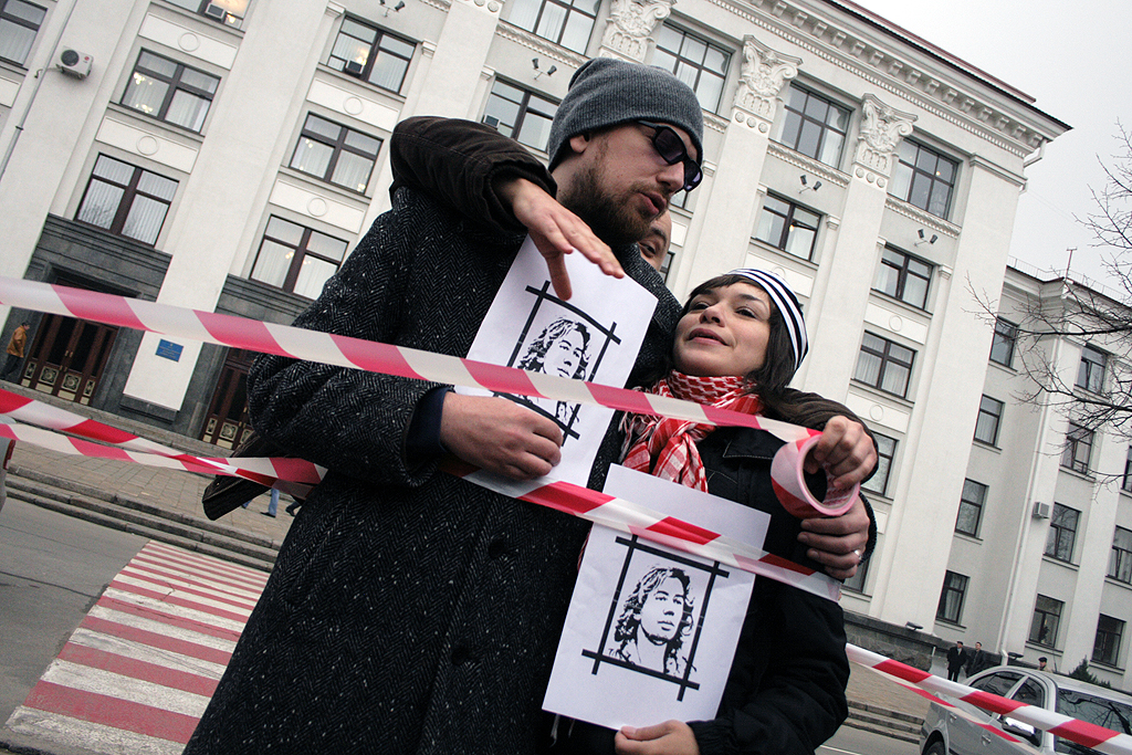 Support of political prisoners (Performance of art-group STAN) Luhansk, 2009